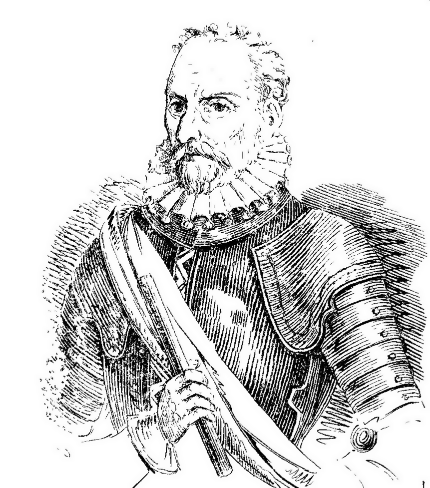 Alessandro Guagnini